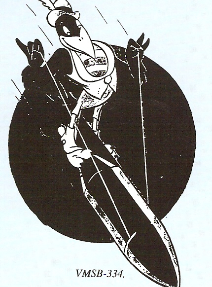 Scanned from *Crowder, Michael J. (2000). United States Marine Corps Aviation Squadron Lineage, Insignia & History - Volume One - The Fighter Squadrons. Turner Publishing Company. ISBN 1-56311-926-9.